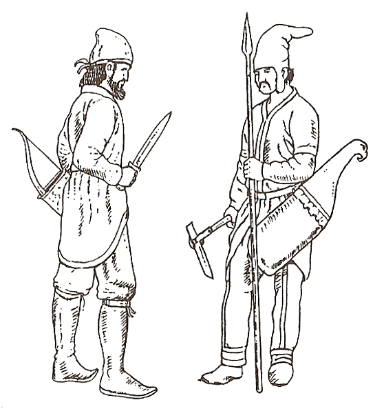 Sakaian soldiers of Xerxes army. Reconstruction based on Herodot's descriptions and archaeological findings. Left - foot archer. Right - horsed(?) archer.